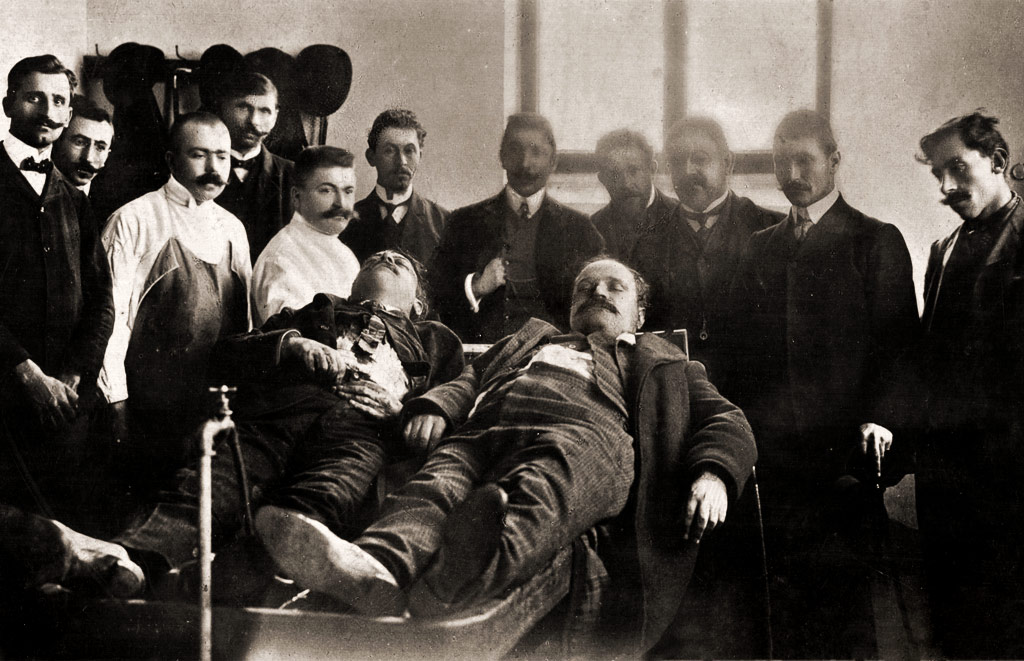 The bodies of the assassinated from Todor Panitsa Ivan Garvanov and Boris Sarafov in Sofia - 1907.